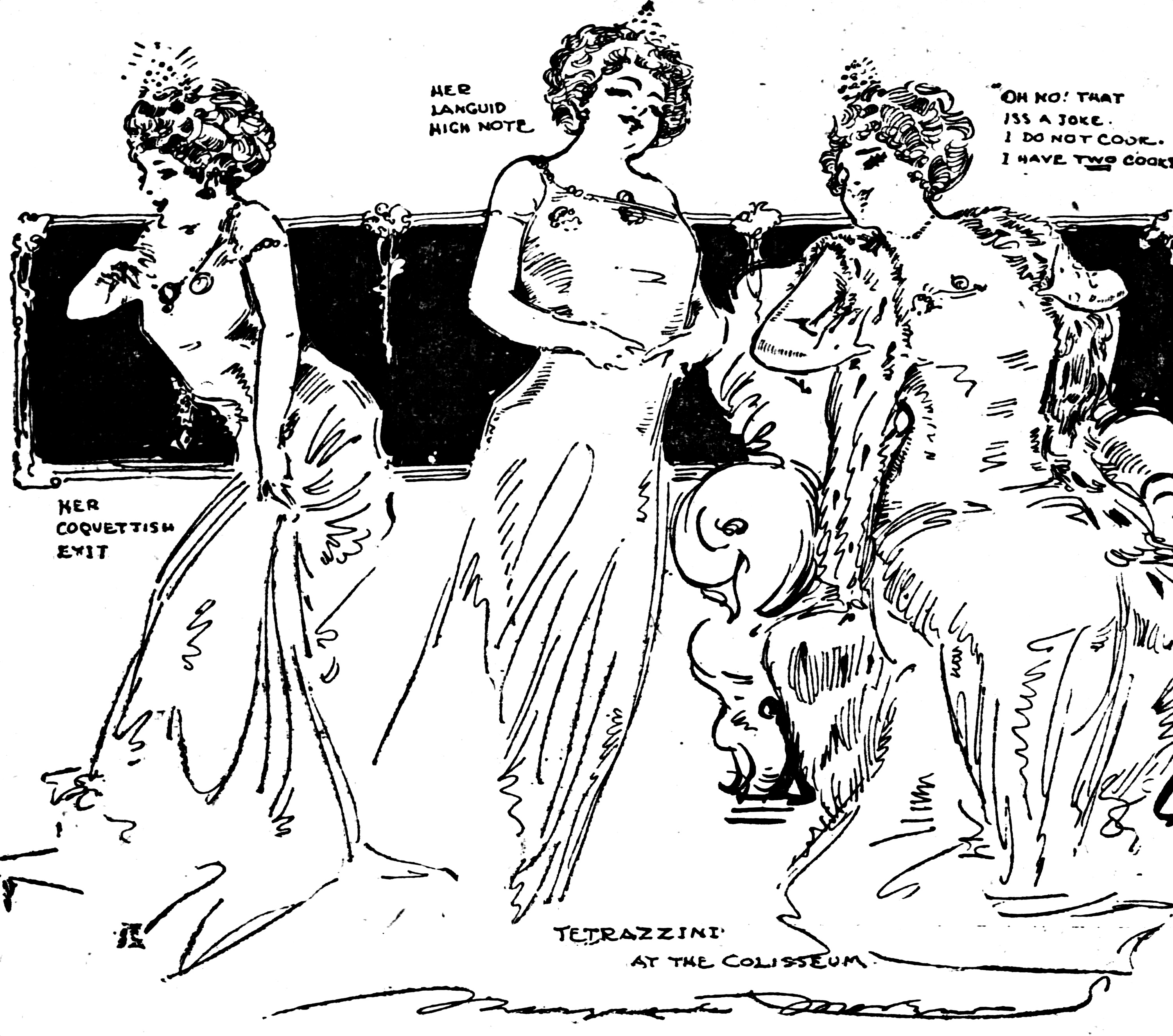 Three sketches of Luisa Tetrazzini by Marguerite Martyn, St. Louis, 1910